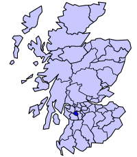 Eastwood District 1975-1996.